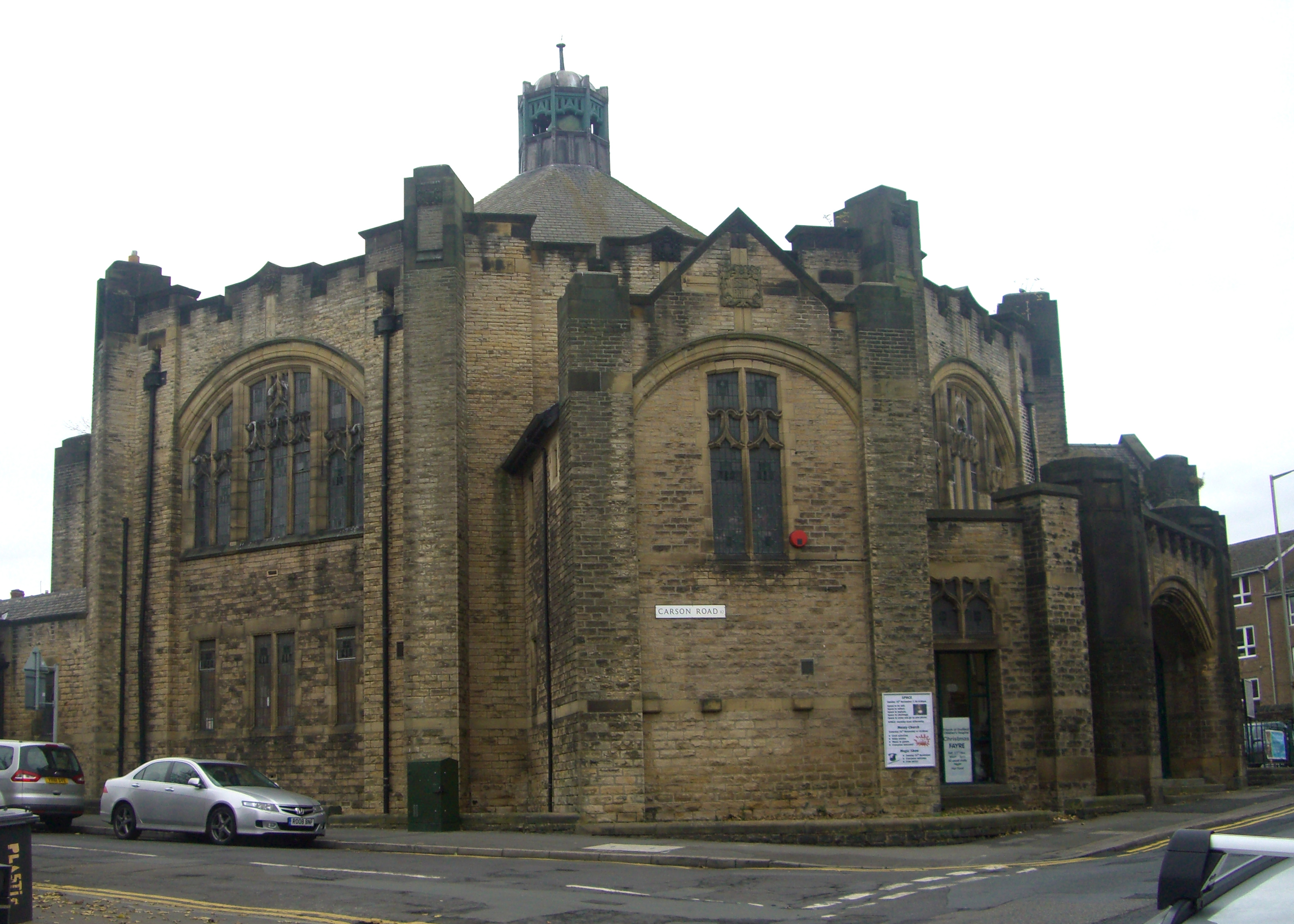 Wesley Hall, Crookes, Sheffield, South Yorkshire, seen from the east